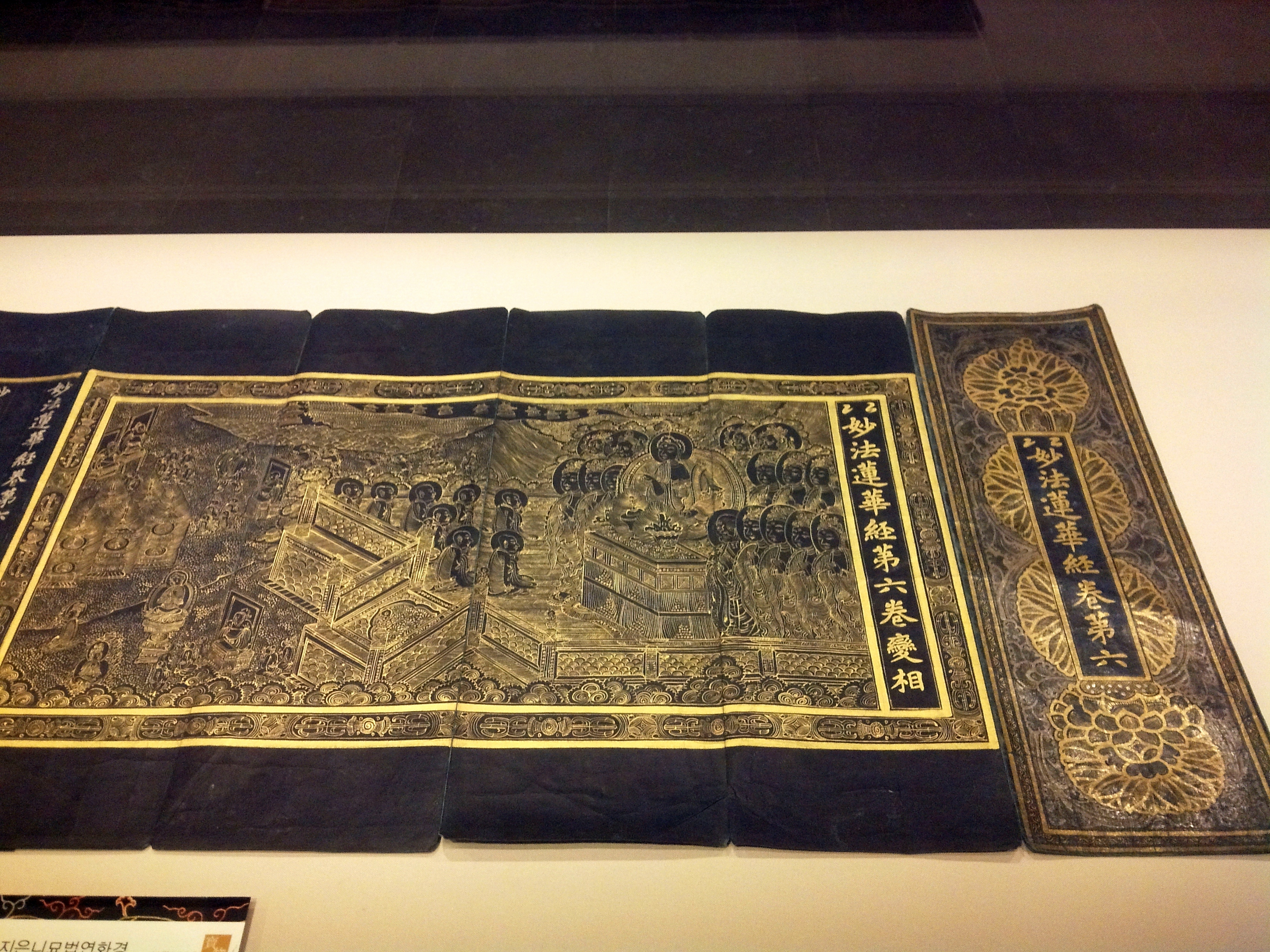 Goryeo-Illustrated manuscript of the Lotus Sutra from Gwangdeoksa temple in Chenan, Korea